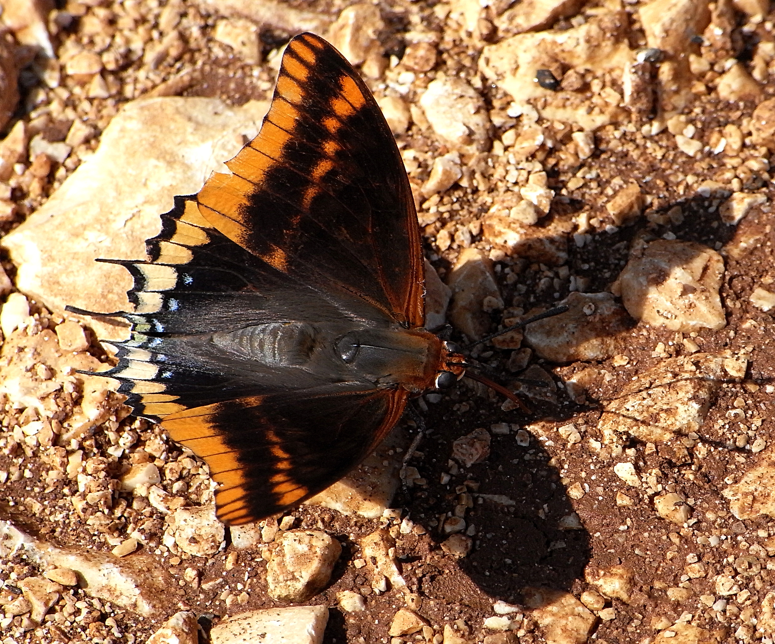 Charaxes jasius Ricoh R8